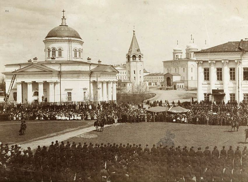 Review of troops of the local garrison. Cathedral of the Assumption of the Blessed Virgin Mary. Nizhny Novgorod Kremlin